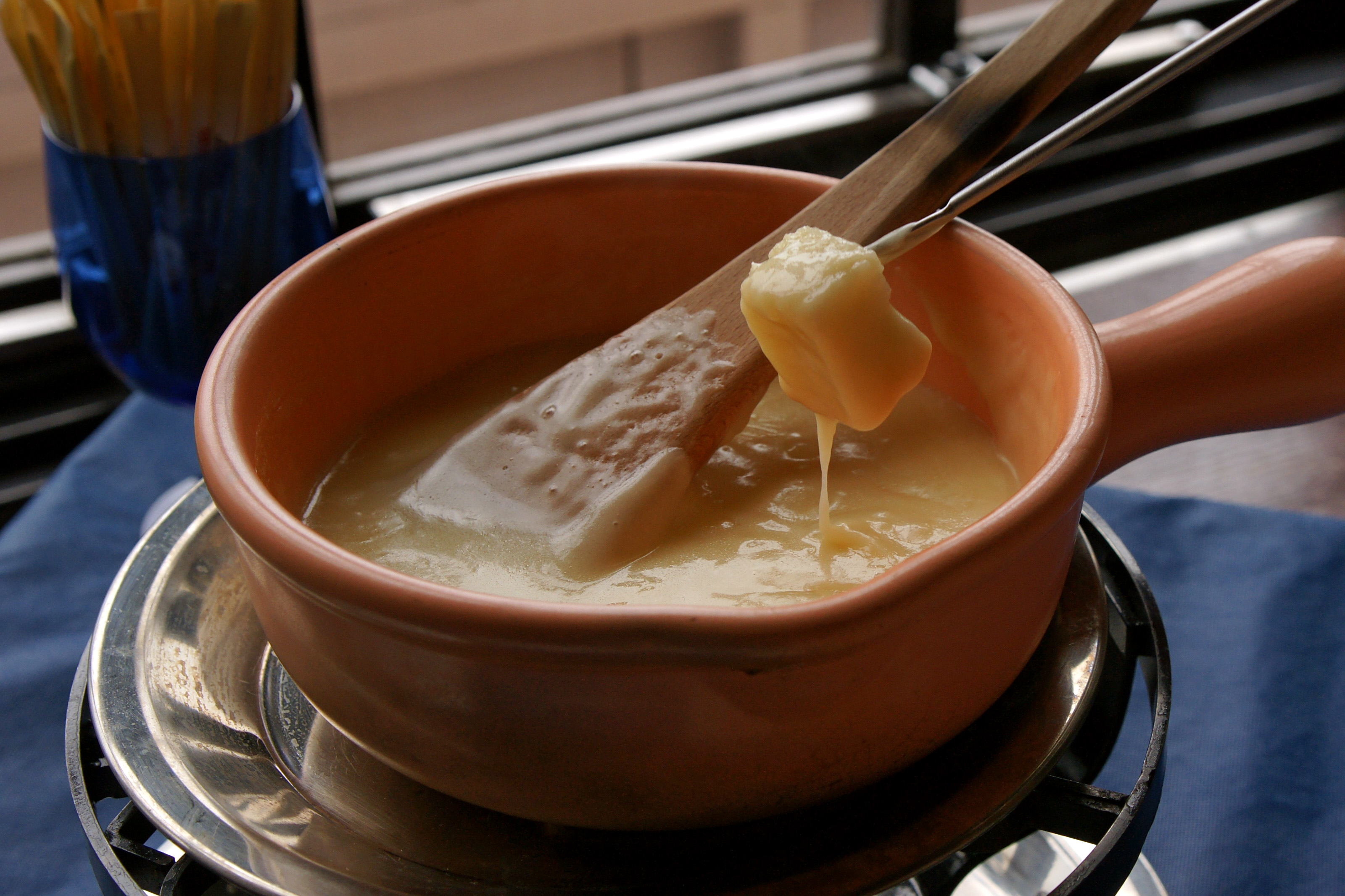 In Restaurant Kobe Cheese of Rokkosan Pasture in Kobe, Hyogo prefecture, Japan